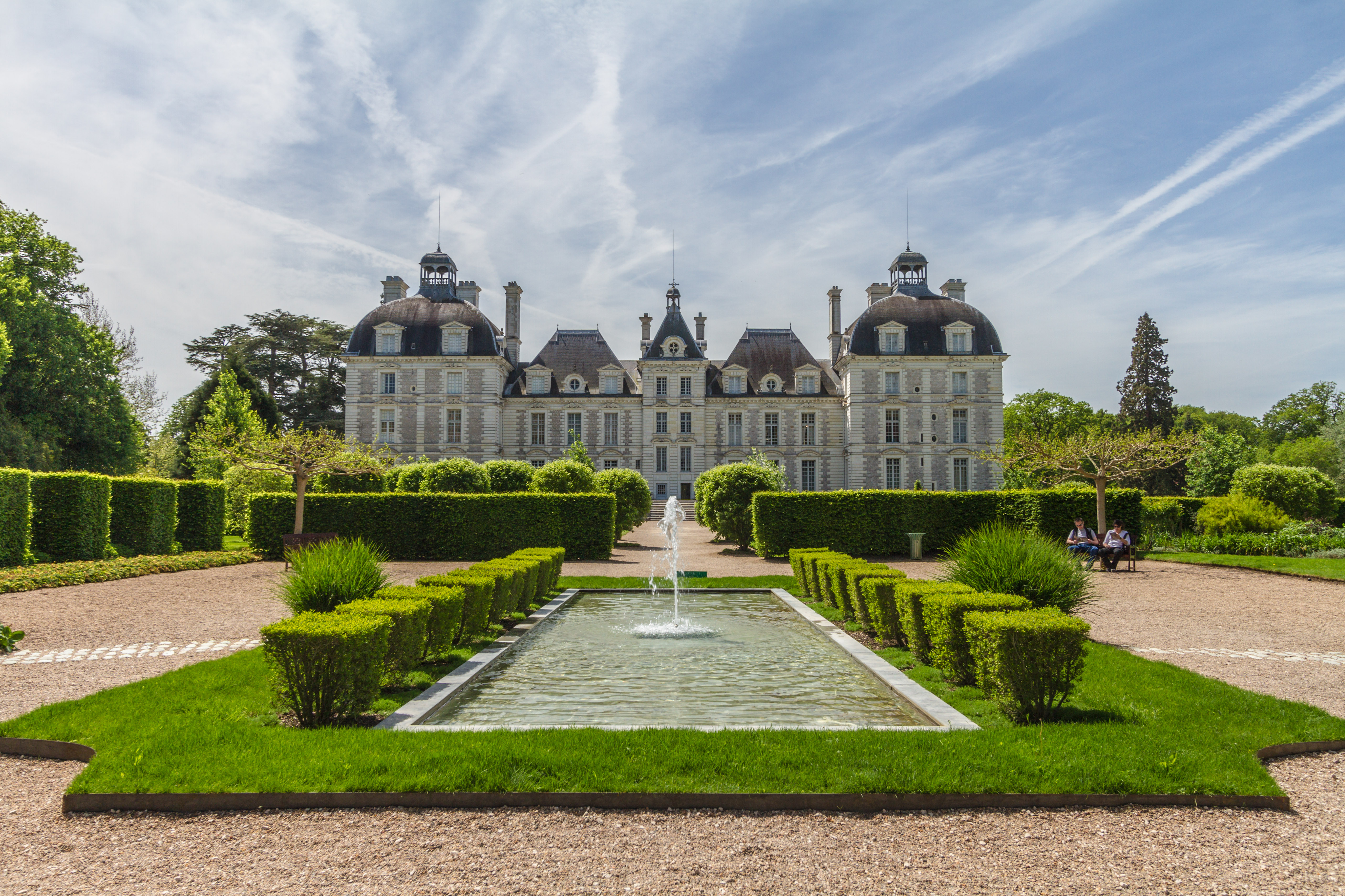 North façade of Cheverny castle, in Cheverny, Loire et Cher, France.